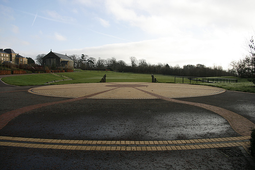 My Own Photo